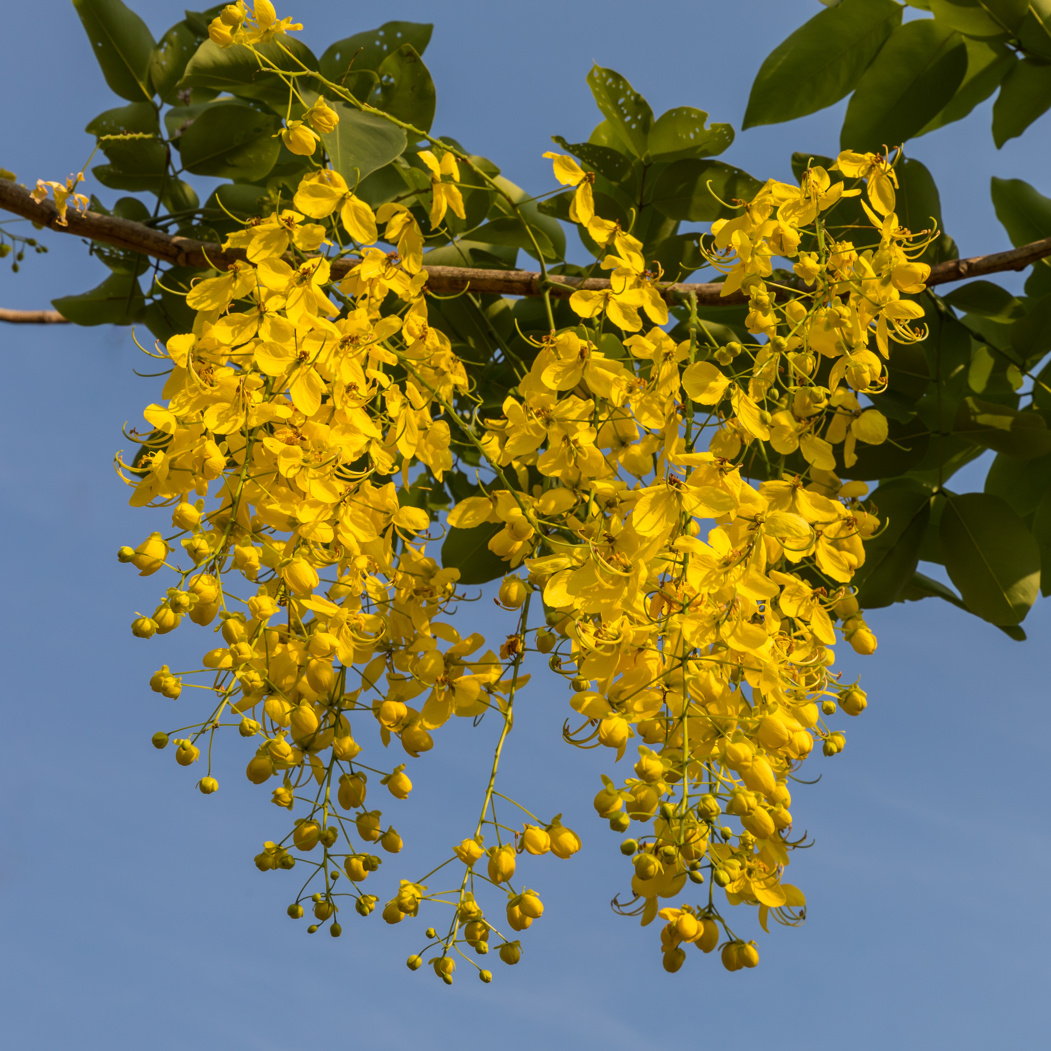 Cassia fistula (golden rain tree), flowers in Don Tao, Si Phan Don, Laos